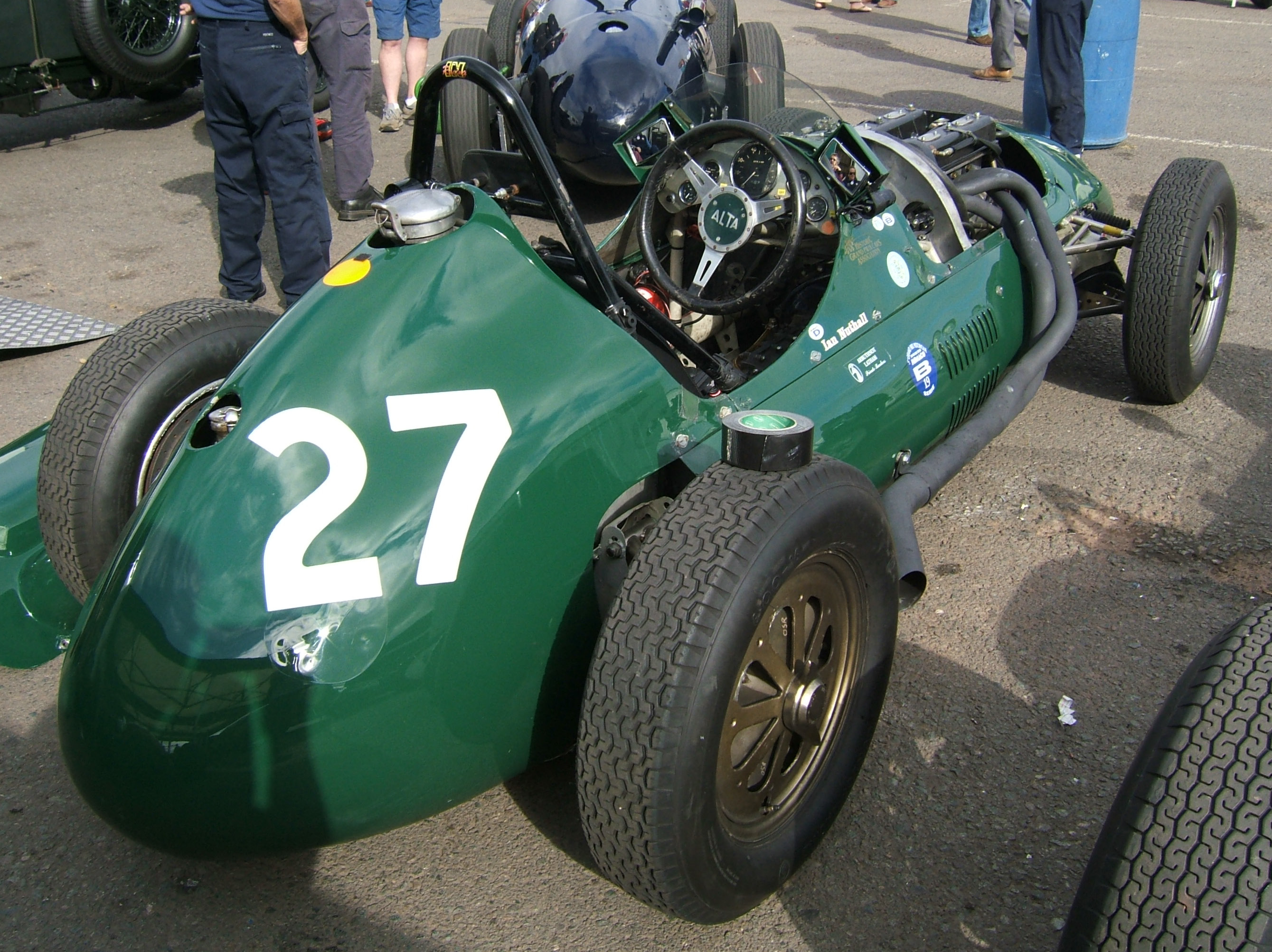 An Alta F2 racing car, photographed in the paddock at the VSCC SeeRed race meeting, Donington Park, September 2007.